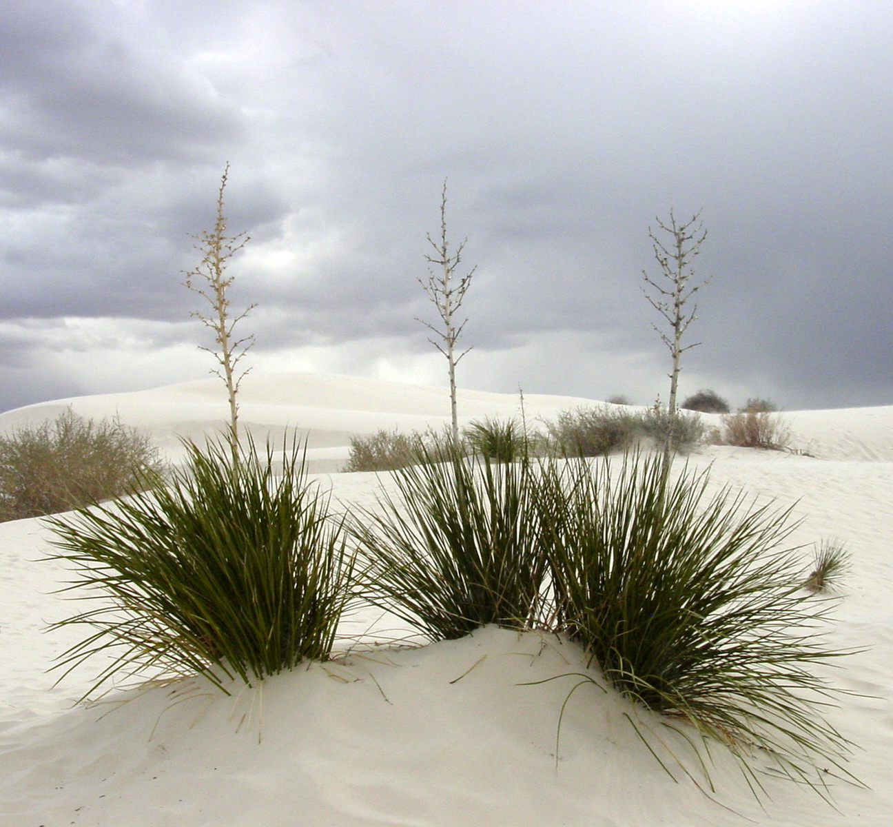 White Sands National Monument - New Mexico, USA